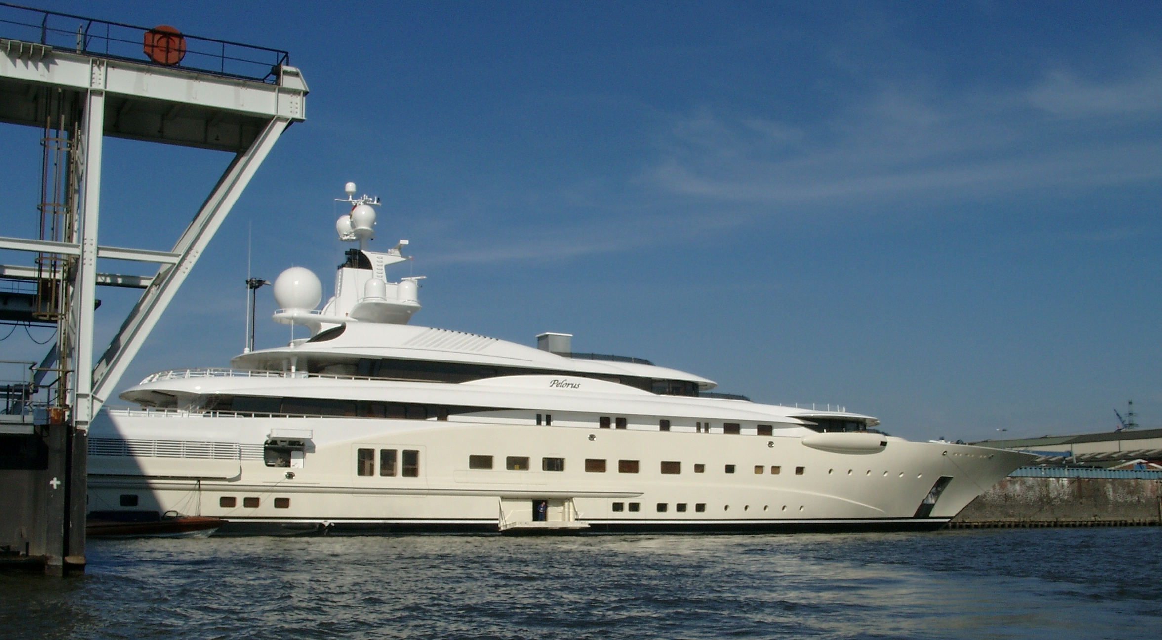 Yacht Pelorus at Blohm & Voss Shipyard, Hamburg, Germany. Owner Roman Abramovich.